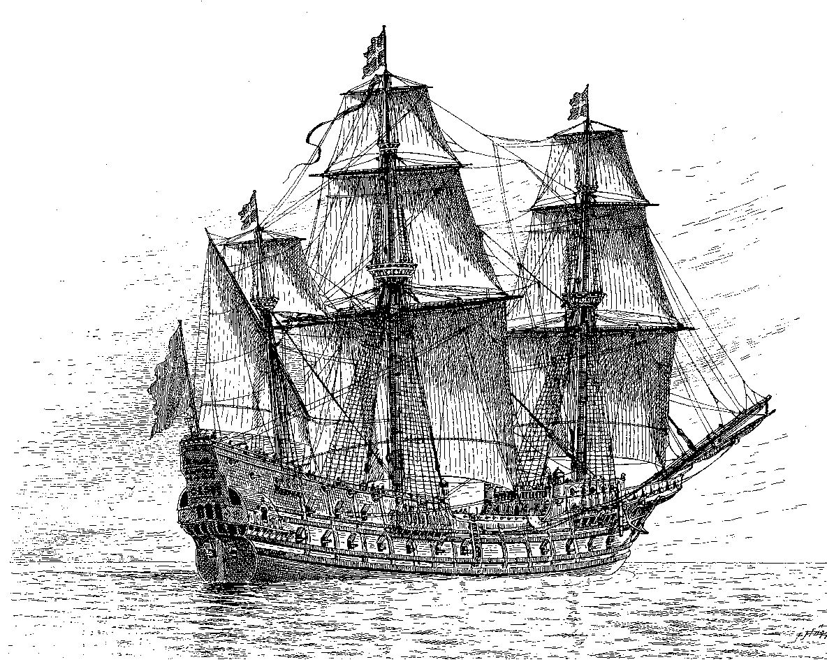 A drawing of the Swedish warship (ship of the line) Mars, also known as the Makalös (Peerless), which was constructed between 1563 and 1564.